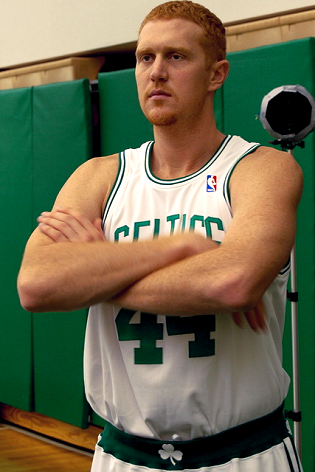 Display of Brian Scalabrine of the Boston Celtics at NBA Media Day on September 28, 2007.